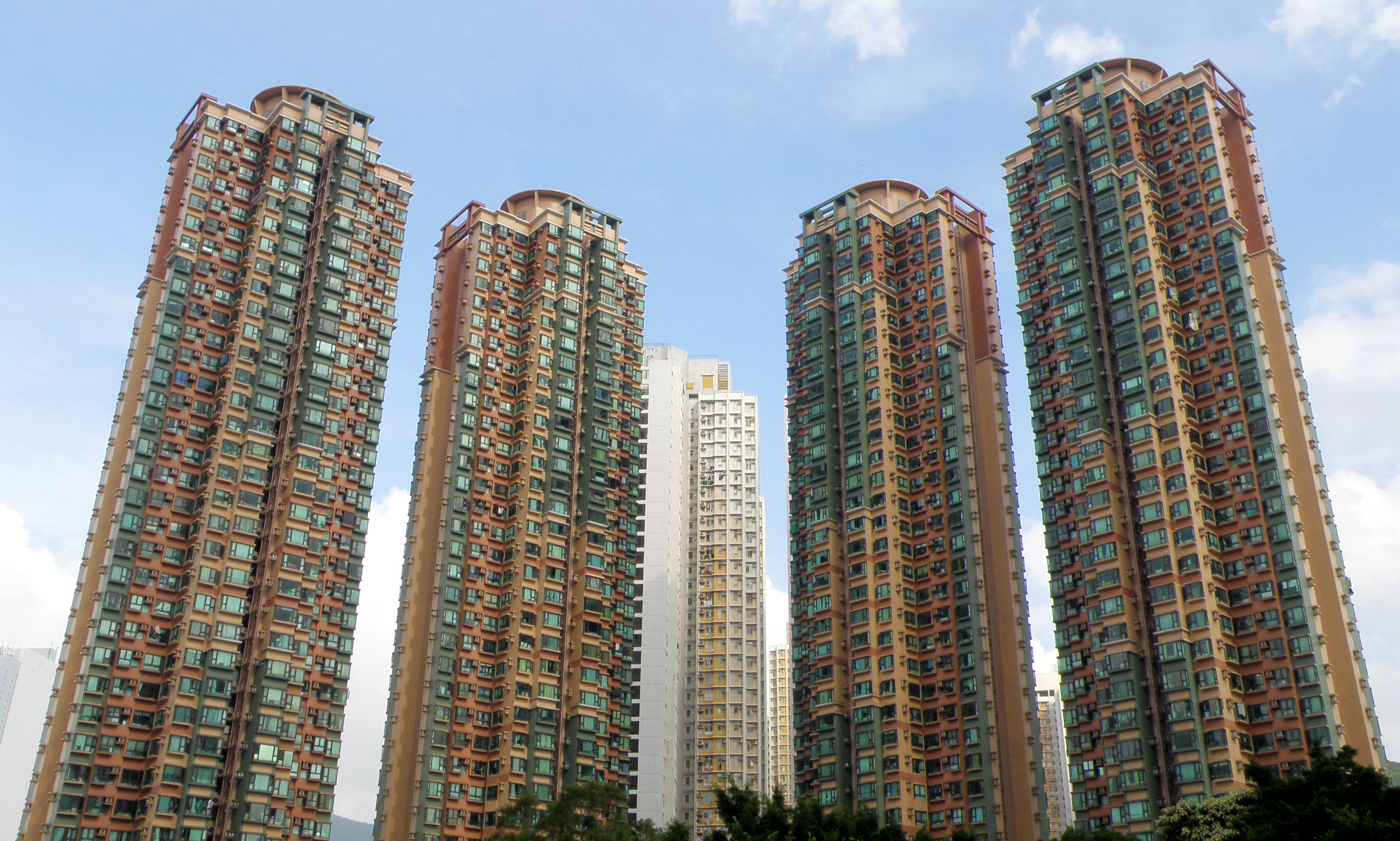 Prima Villa in Yuen Chau Kok, Hong Kong.